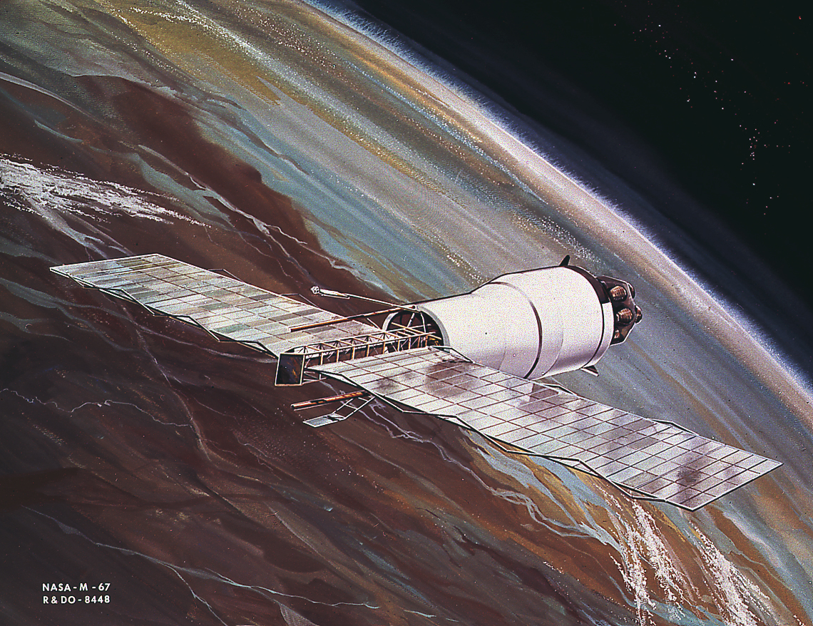 This image is an artist's conception of the Pegasus, meteoroid detection satellite, in orbit with meteoroid detector extended. The satellite, a payload for Saturn I SA-8, SA-9, and SA-10 missions, was used to obtain data on frequency and penetration of the potentially hazardous micrometeoroids in low Earth orbits and to relay the information back to Earth.